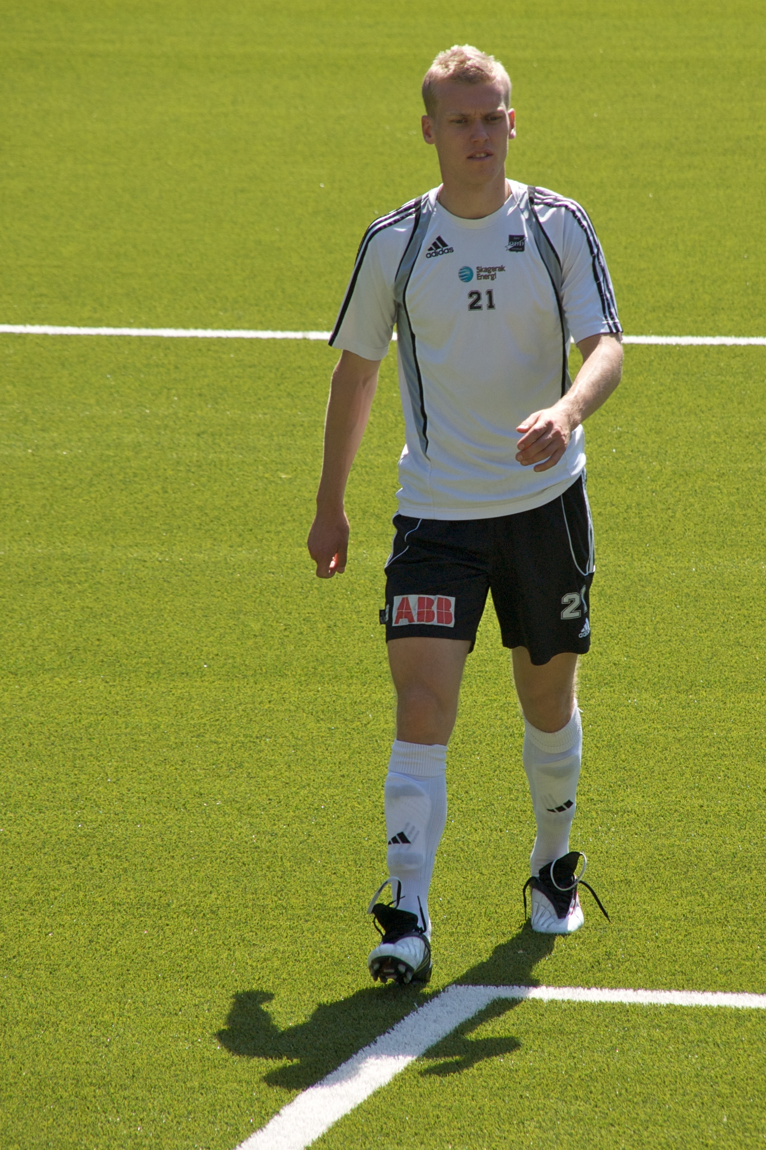 Fotballer Steffen Hagen.